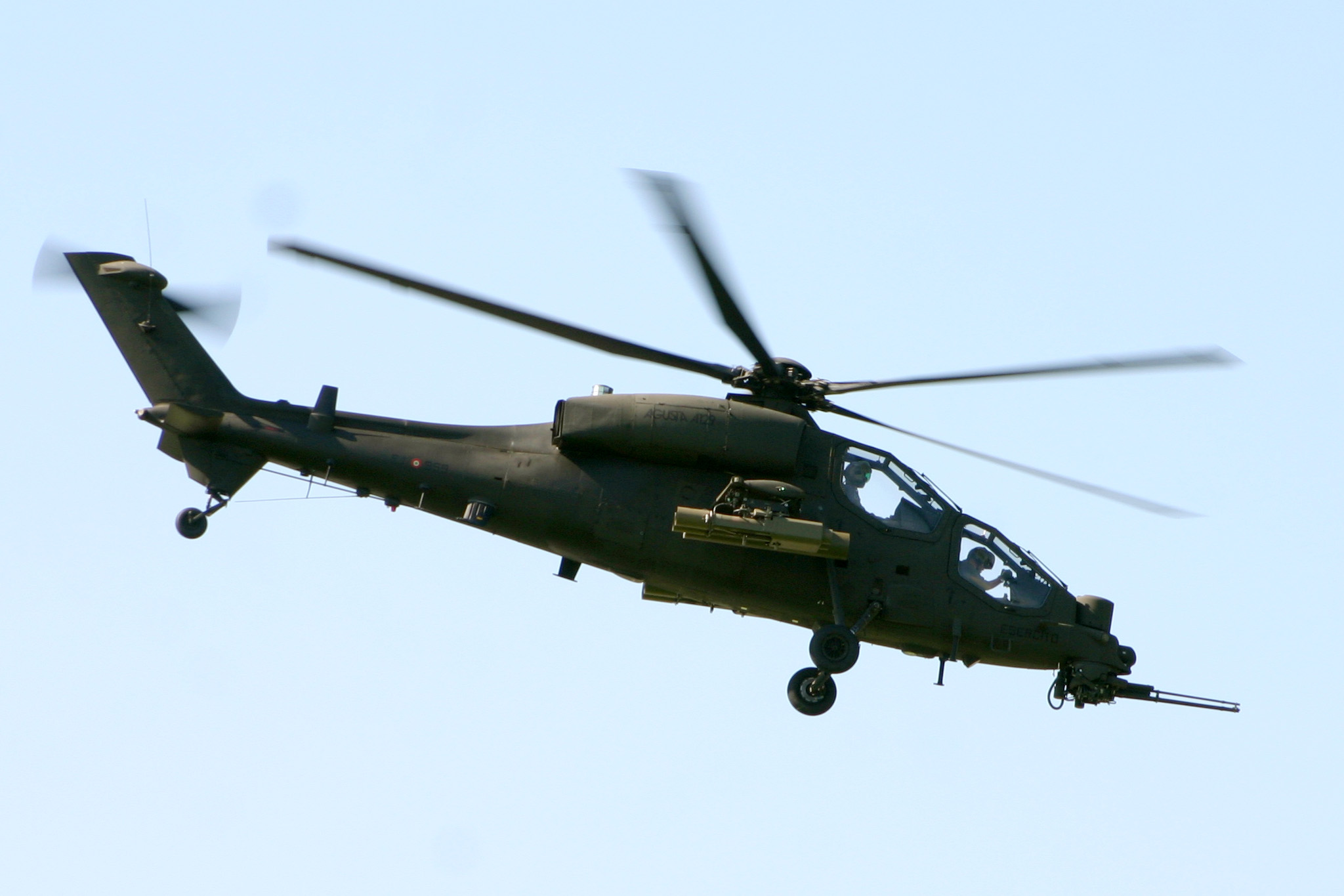 Agusta A129 Mangusta at Air 04, Payerne, Switzerland